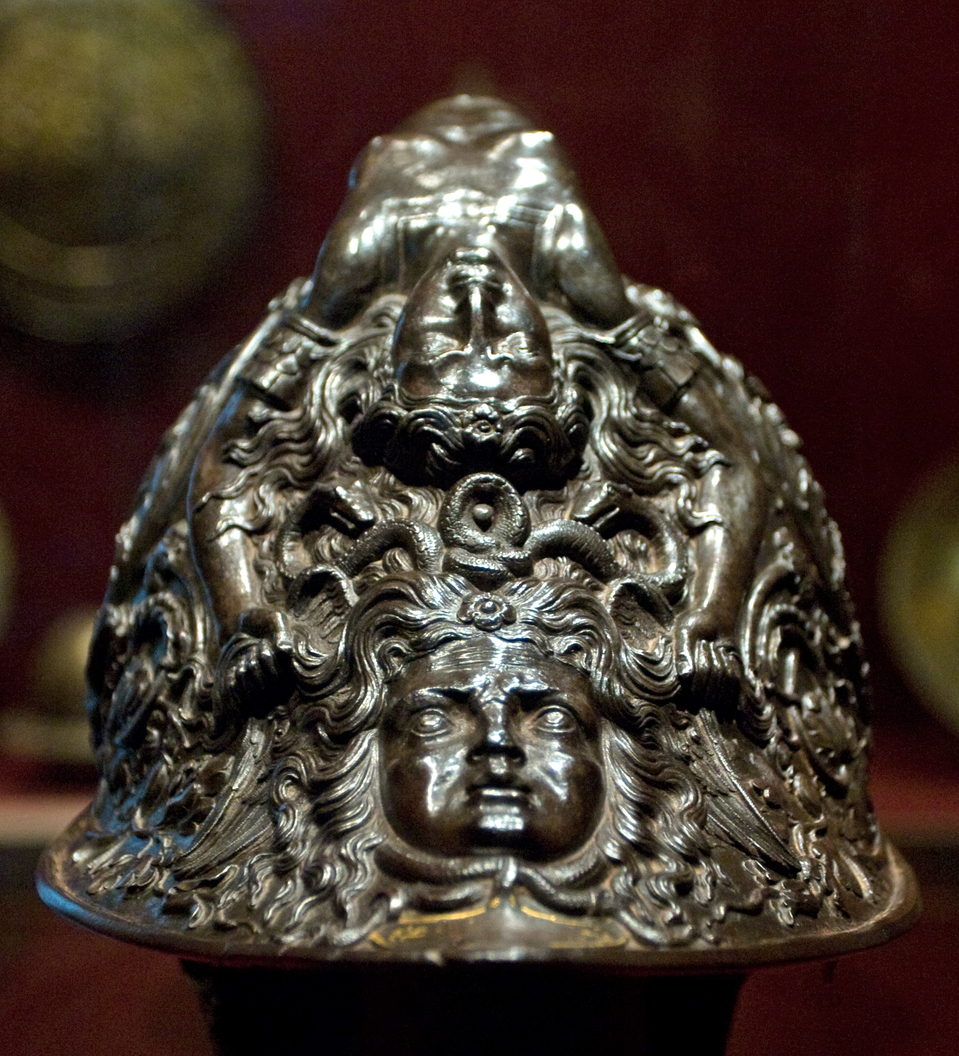 Filippo Negroli (ca. 1510–1579) Burgonet, dated 1543 Italian (Milan) Steel; H. 9 1/2 in. (24.13 cm) Gr. W. 7 5/16 in. (18.57 cm) Wt. 4 lb. 2 oz. (1871 gm) The Metropolitan Museum of Art, New York, Gift of J. Pierpont Morgan, 1917 (17.190.1720) View at the Metropolitan Museum of Art website Wikipedia Loves Art at the Metropolitan Museum of Art This photo of item # 17.190.1720 at the Metropolitan Museum of Art was contributed under the team name "TrevorLittle" as part of the Wikipedia Loves Art project in February 2009. Metropolitan Museum of Art The original photograph on Flickr was taken by trevorlittle—please add a comment to the original Flickr page whenever a use has been made on Wikipedia or another project. Project galleries on Flickr: this institution, this team